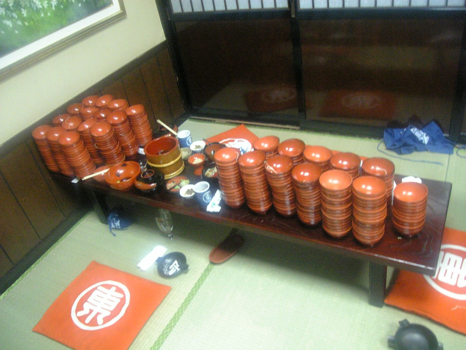 Piles of empty Wanko Soba bowls at Azumaya Soba Restaurant in Morioka, Iwate Prefecture, Japan.